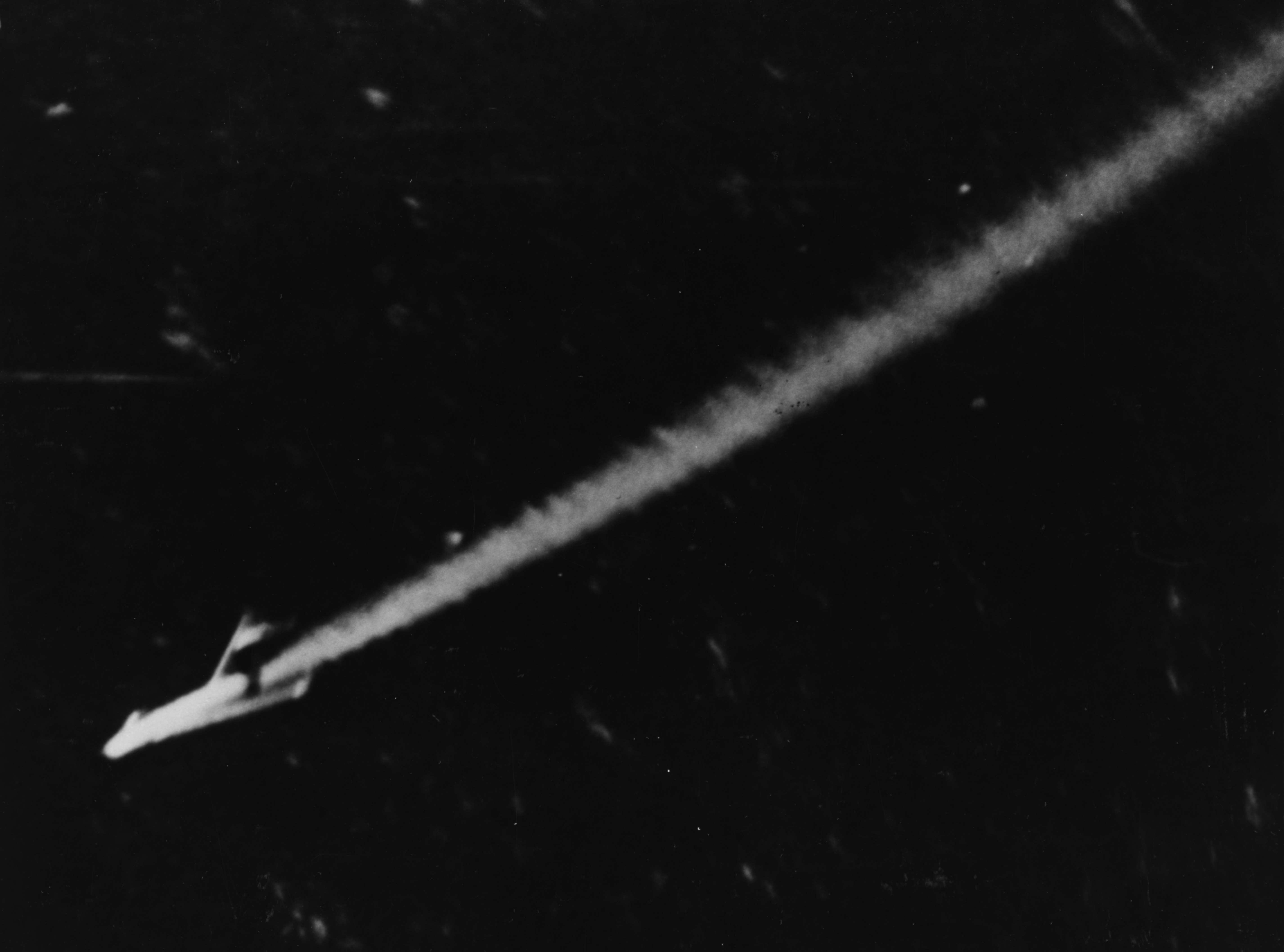 A Soviet-built Mikoyan-Gurevich MiG-15 jet fighter is shot down by a U.S. Navy fighter over Korea. The photo is dated 17 March 1953, at a time when no enemy planes were shot down by U.S. Navy pilots. This may be one of two MiG-15s shot down on 18 November 1952 by Grumman F9F-5 Panthers of Fighter Squadron 781 (VF-781) from the aircraft carrier USS Oriskany (CVA-34).